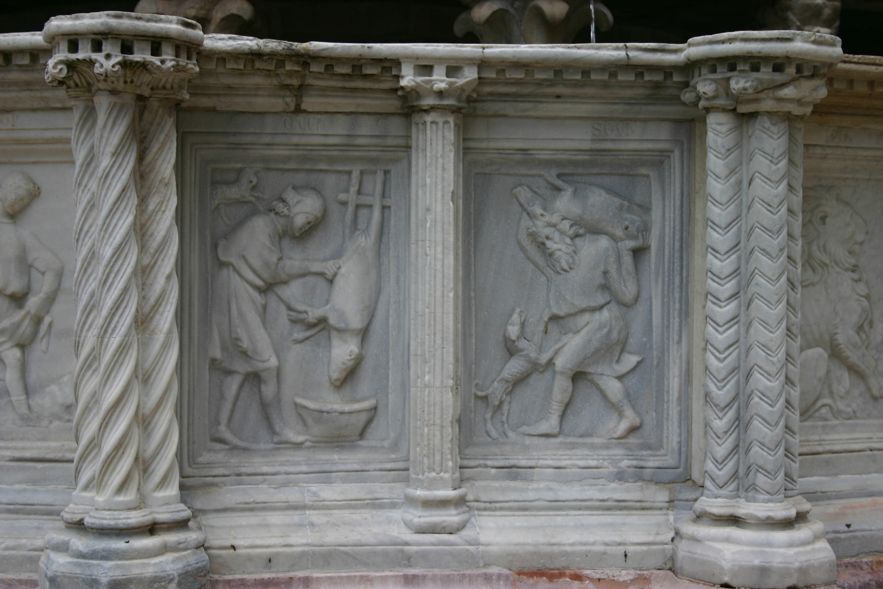 Perugia, the Fontana Maggiore (Main Fountain), sculpted after 1275 by Nicola Pisano and Giovanni Pisano. This image belongs to the series depicting human activities through the year. Here are portraied human activities taking place in the month of December (butchering pigs). Picture by Giovanni Dall'Orto, August 5, 2006.